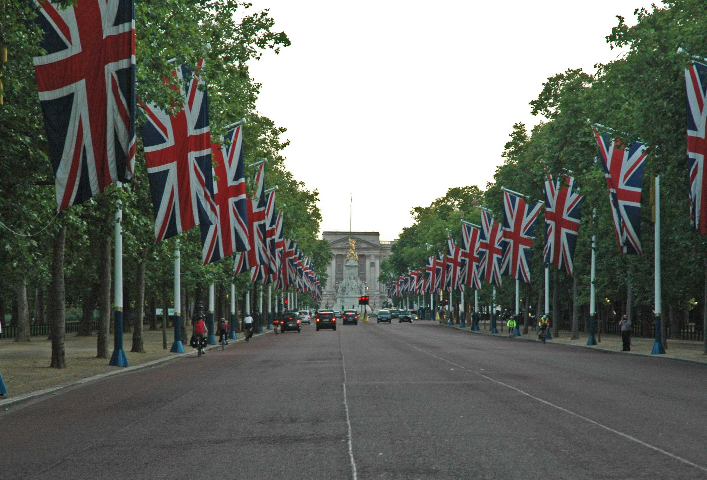 Tha Mall, London